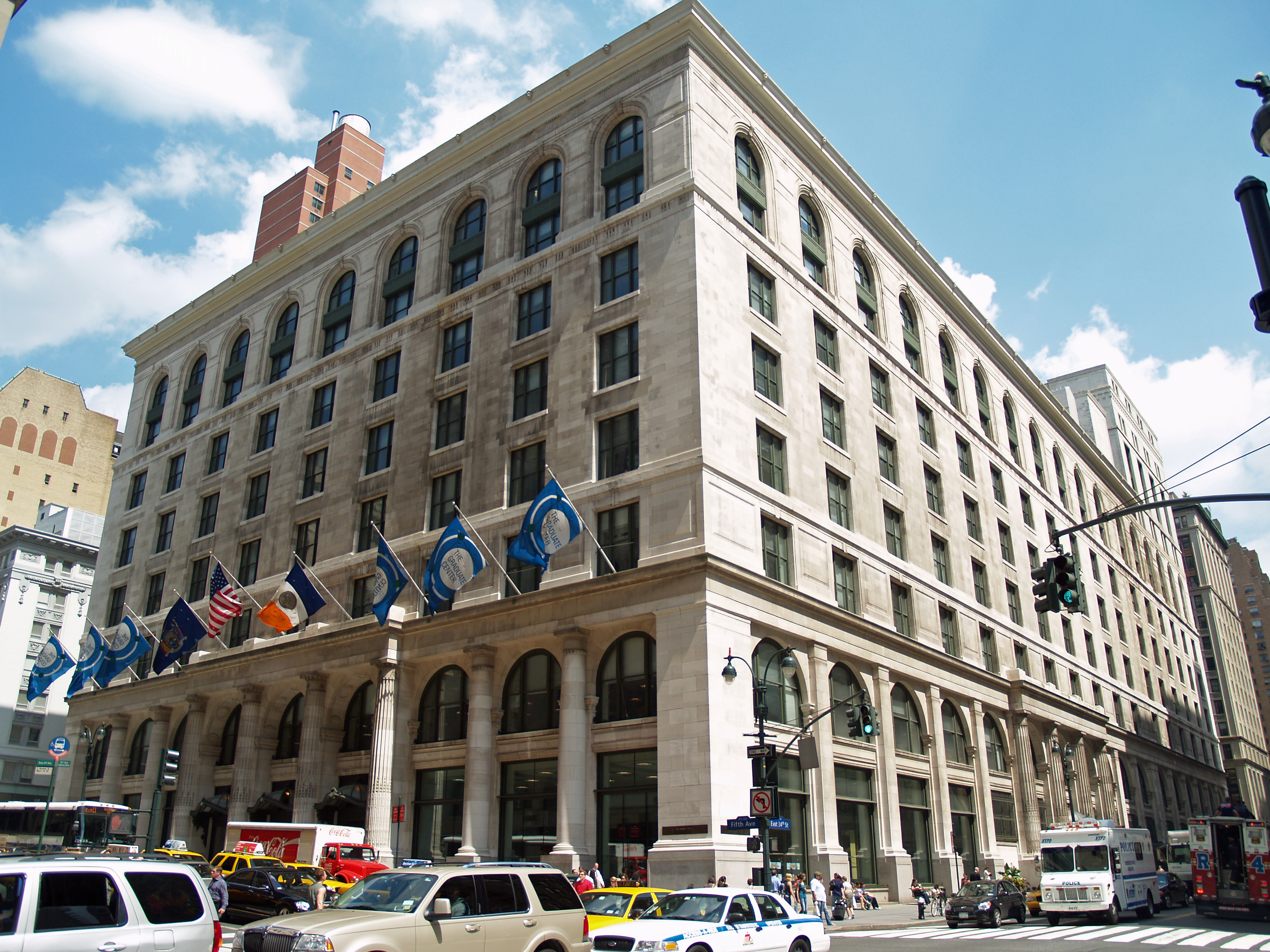 Looking east across 5th Avenue and 34th Street at CUNY Graduate Center, formerly the B. Altman and Company flagship store. NYCLPC designation 1984